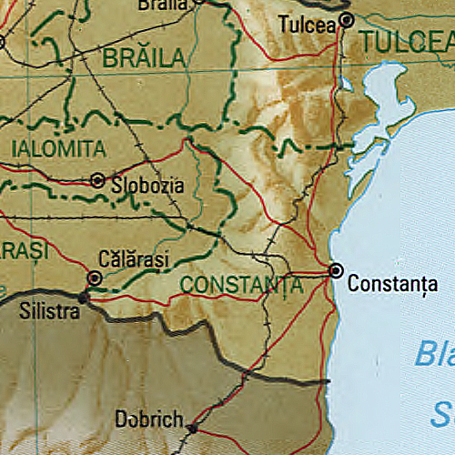 Map of Constanța County, Romania.